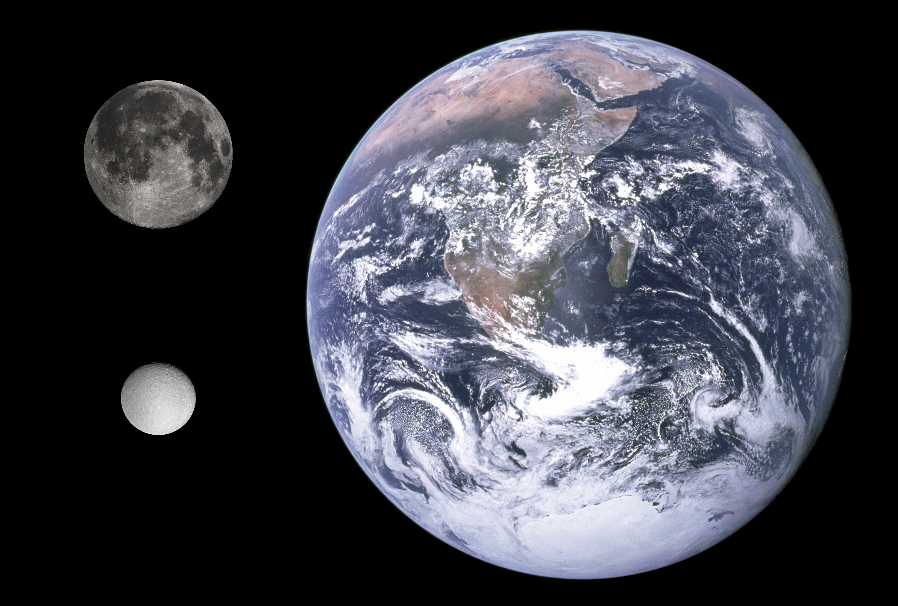 Diameter comparison of Saturn's moon Dione, the Moon and Earth Scale approx. 29km per px.